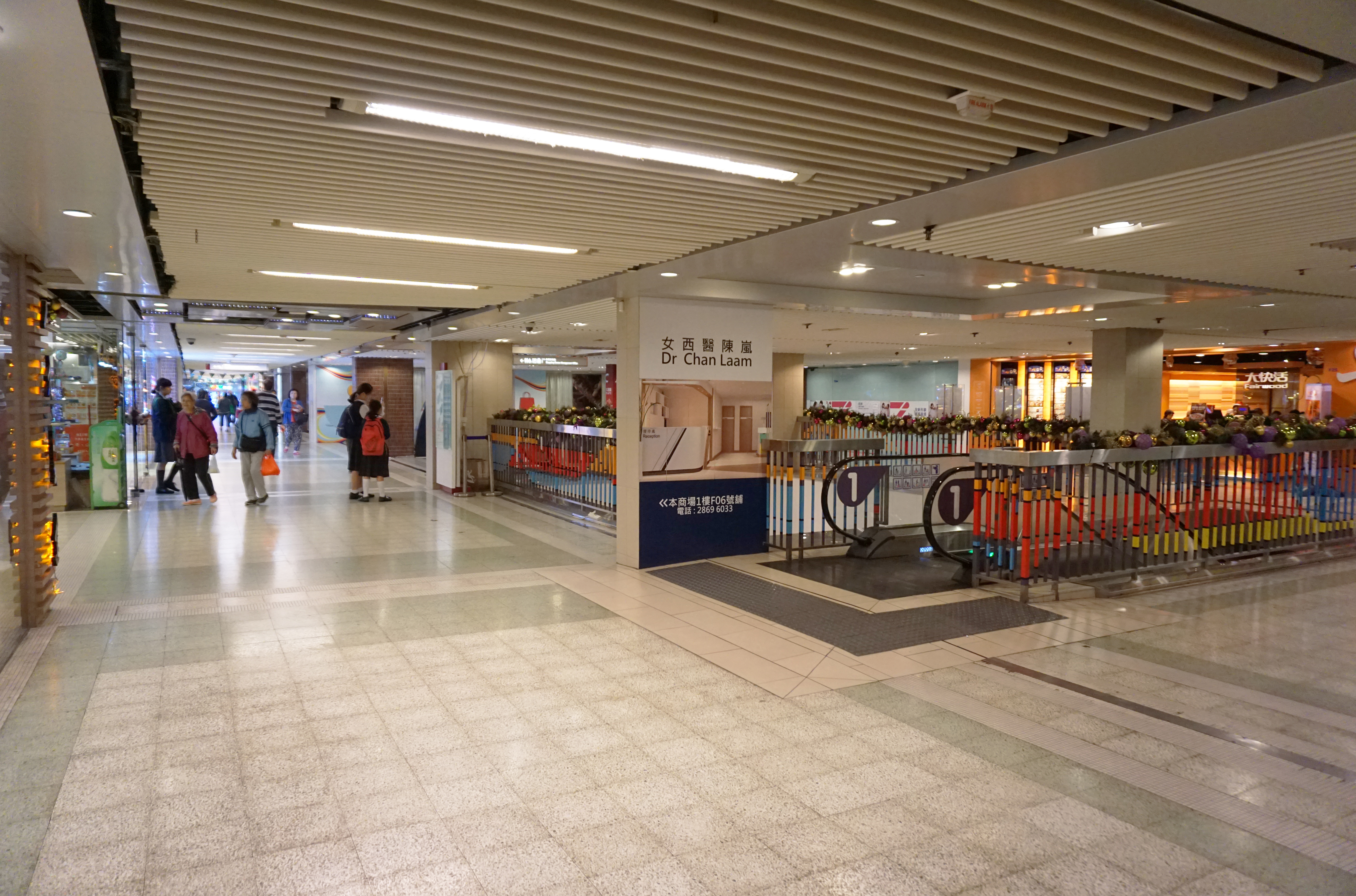 Oi Man Plaza in Ho Man Tin, Hong Kong.